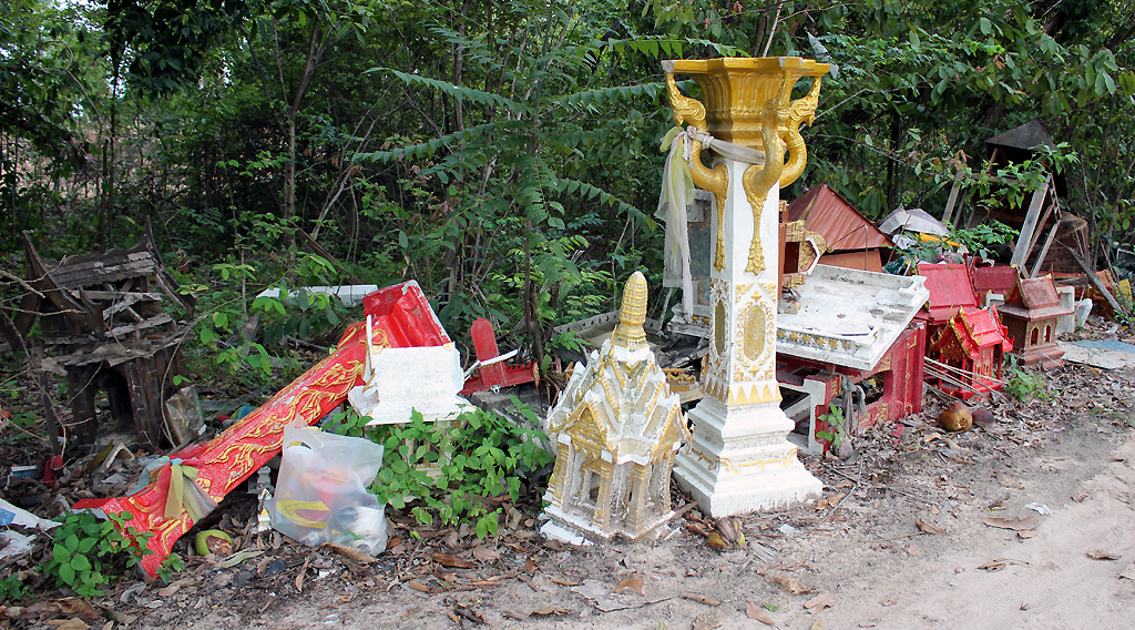 Old worn-out and discarded Spirit Houses left in a wood, as a fallen city of its own. (Koh Samui, Thailand, 2016)